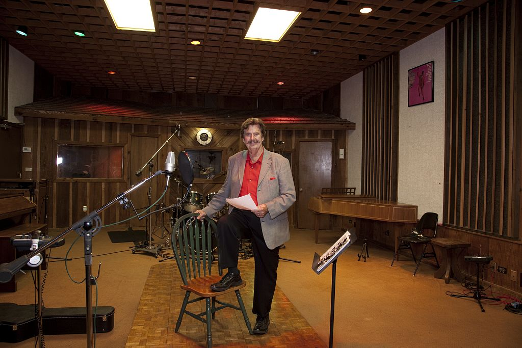 Rick Hall, founder of FAME Recording Studios, sitting in the FAME studio in Muscle Shoals, Alabama